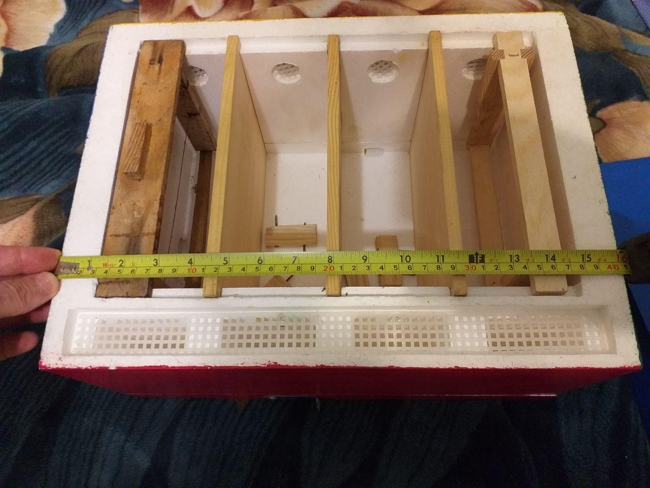 nucleus, beekeeping